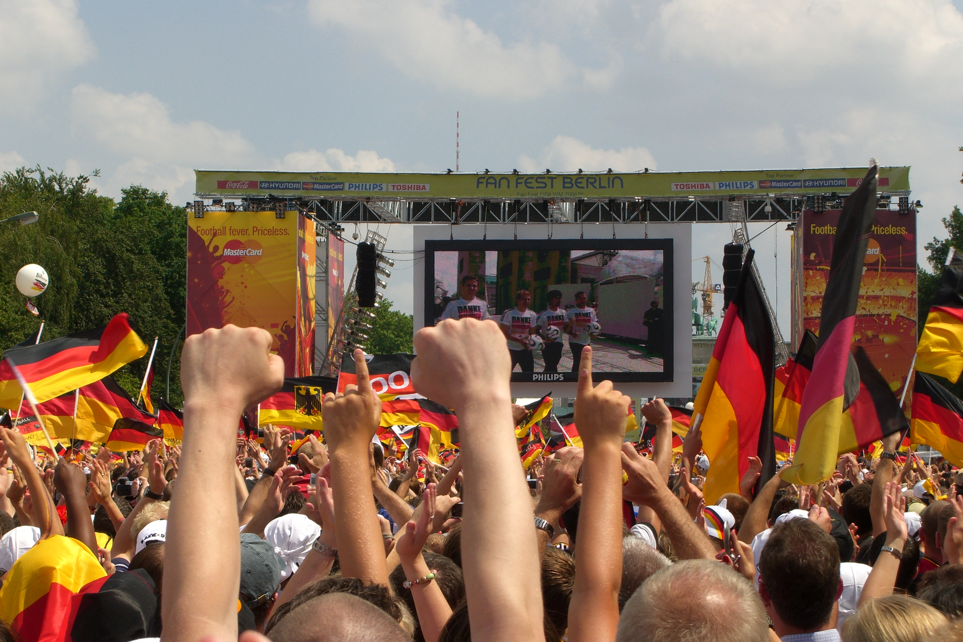 'Fanmeile' (supporter area) in Berlin during the Worldcup 2006; celebration of the German team